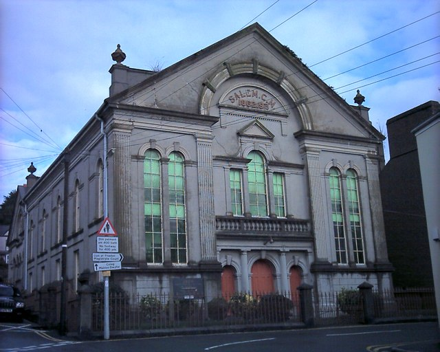 Capel Salem Pwllheli